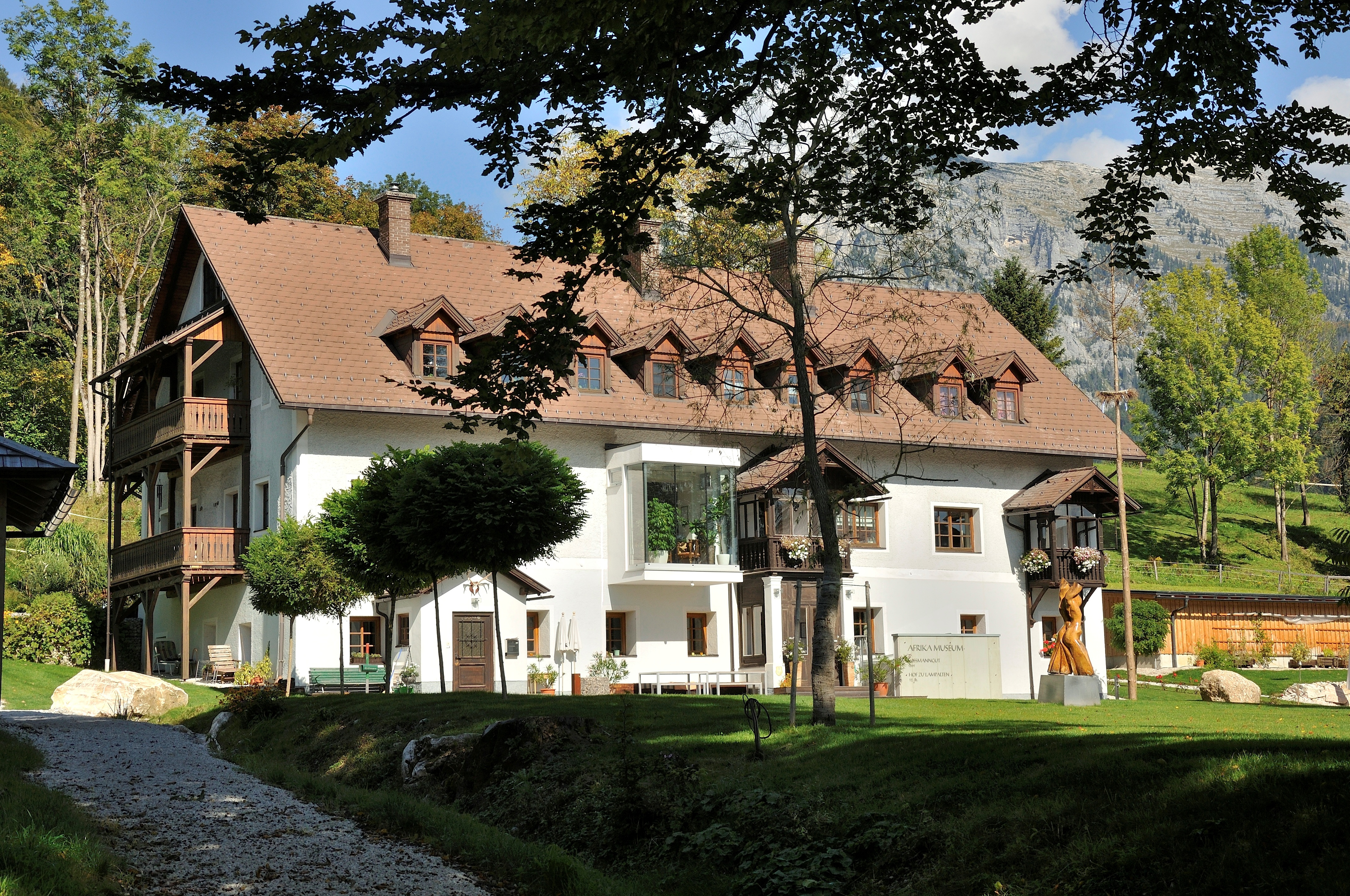 The so-called Wissmann-Gut in Weißenbach bei Liezen (Austria).